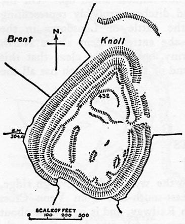 Map of earthworks at Brent Knoll, Somerset, England.